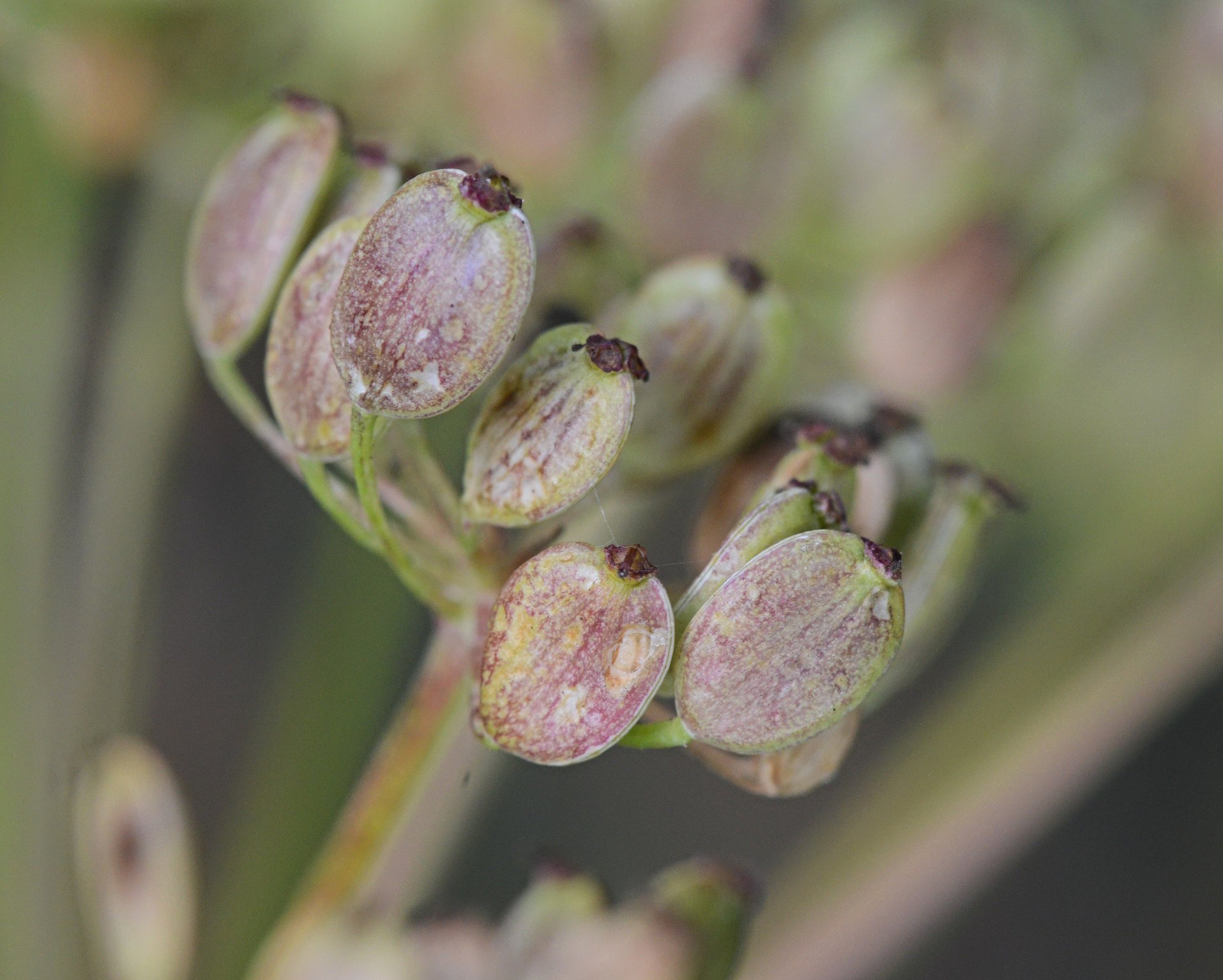 Pastinaca sativa subsp. sativa, fruits